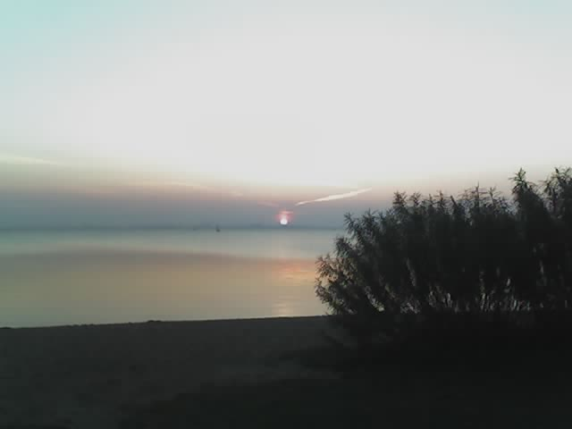 Lake Duemmer at sunset (private photo taken by specialplant)